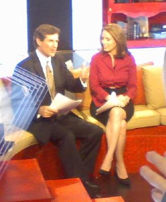 The set of Fox Business Network's Money for Breakfast, and hosts Alexis Glick and Peter Barnes